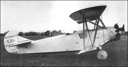 Photo of the Sikorsky S-31 aircraft circa 1925